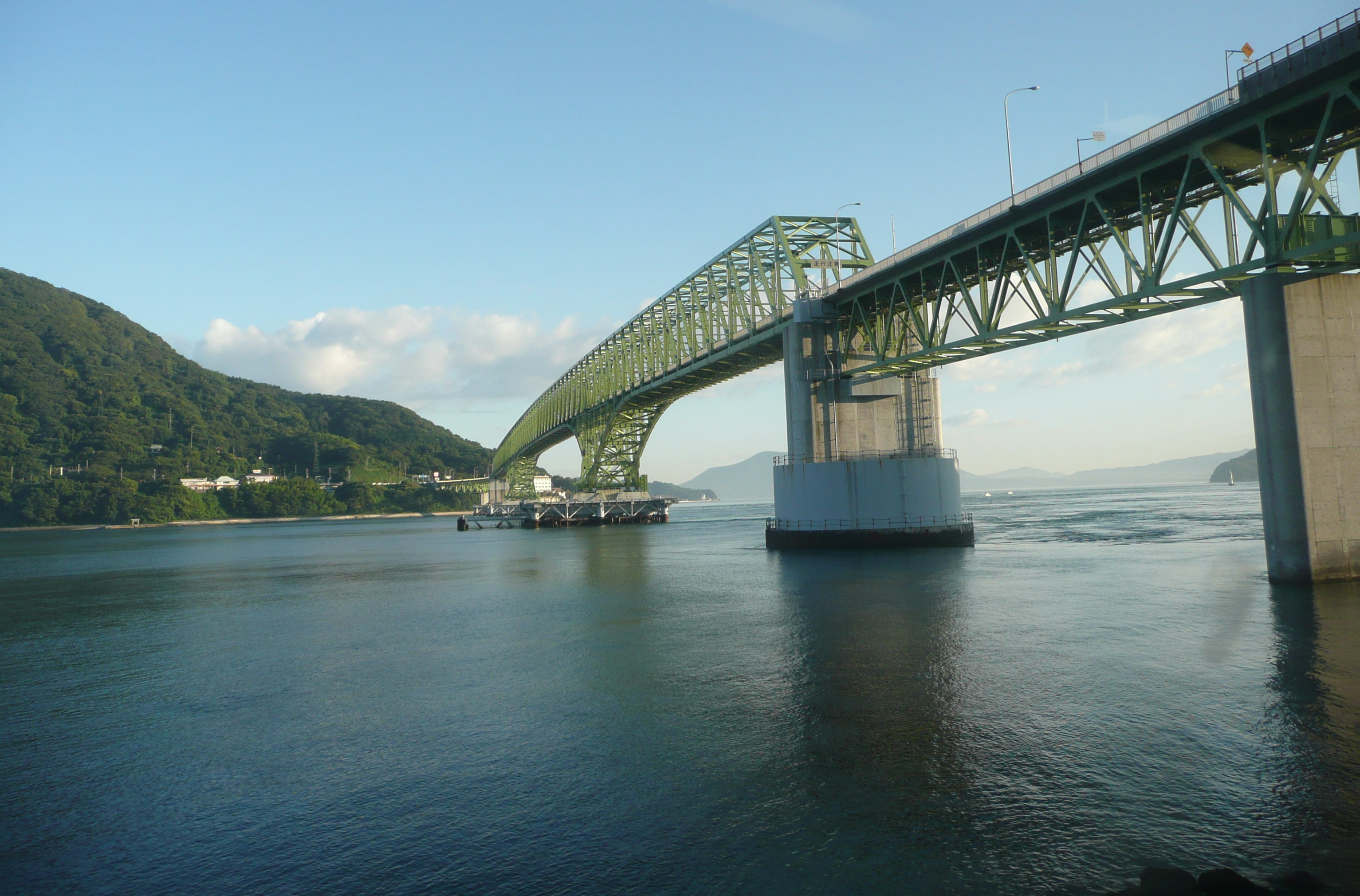 列車内から望む大島大橋